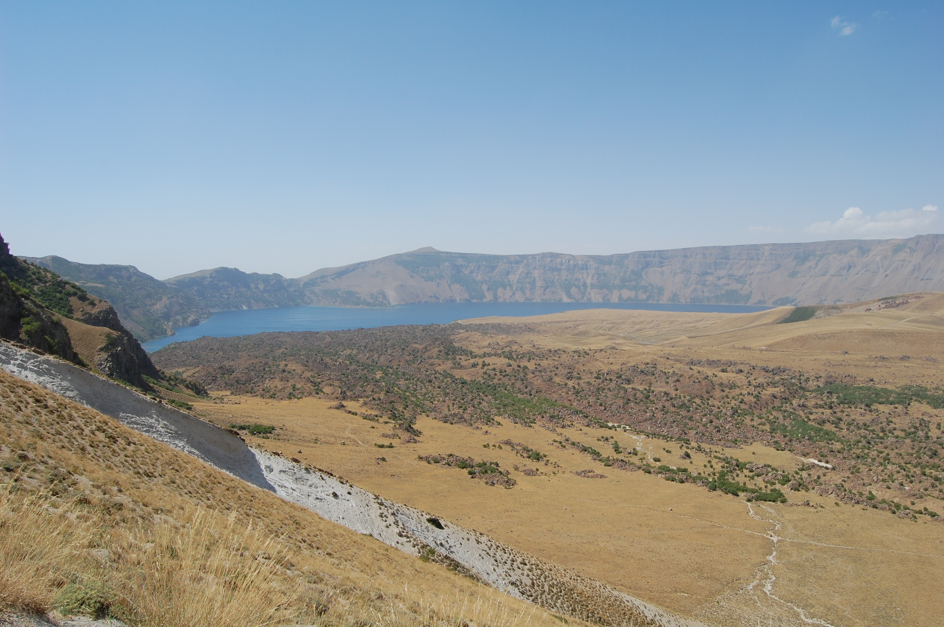 The crater of the volcano Namrut, SE Anatolia